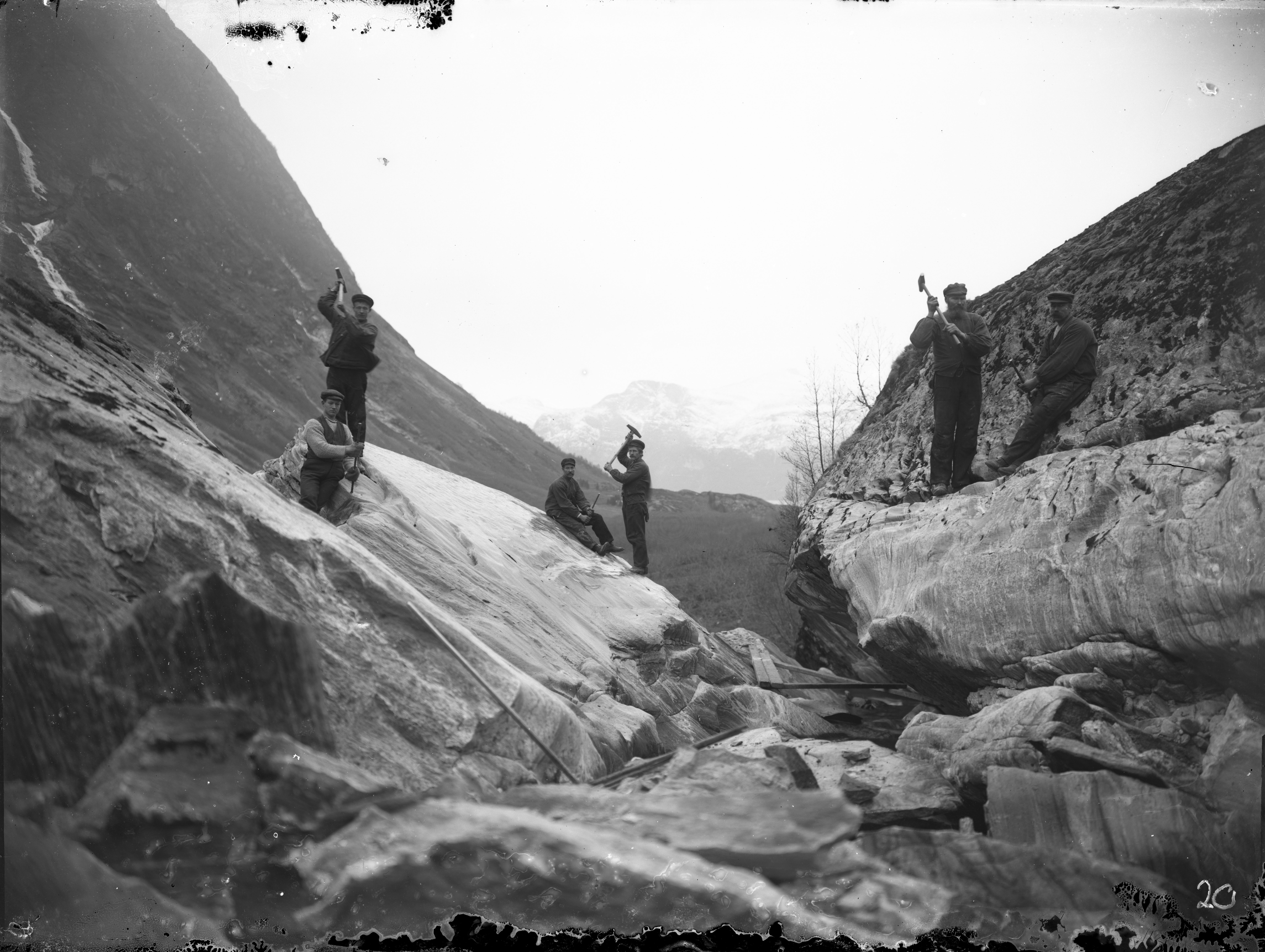 Identifier:SFFf-1995033.268560. Description: The farmers at Greidung in Erdalen working at lowering the water level in the Erdalselva river. By lowering the water level in the river they increased the area of cultivable land in the valley. Photographer: Knut Aaaning. Date:ca. 1900-1922. Medium: Glass plate negative. Extent: 18 x 24 cm. Knut A. Aaning (1880–1922) Alternative names Knut AaningDescriptionNorwegian photographerAaning worked as a professional photographer and after his death in 1922 thousands of glass plate negatives were badly stored uptil the 1980`s. Only 23 negatives survived the years of poor storage and successive demolitions. The poor storage conditions have left the plates damaged by water and mold attacks. More on Aaning and his photos here.Date of birth/death 23 April 1880 1922 Location of birth/death Stryn OppstrynWork period1900-1922Work location OppstrynAuthority control : Q11394810 KulturNav: bfb72790-1ebf-4d97-b0d4-51538c0c6e93 creator QS:P170,Q11394810